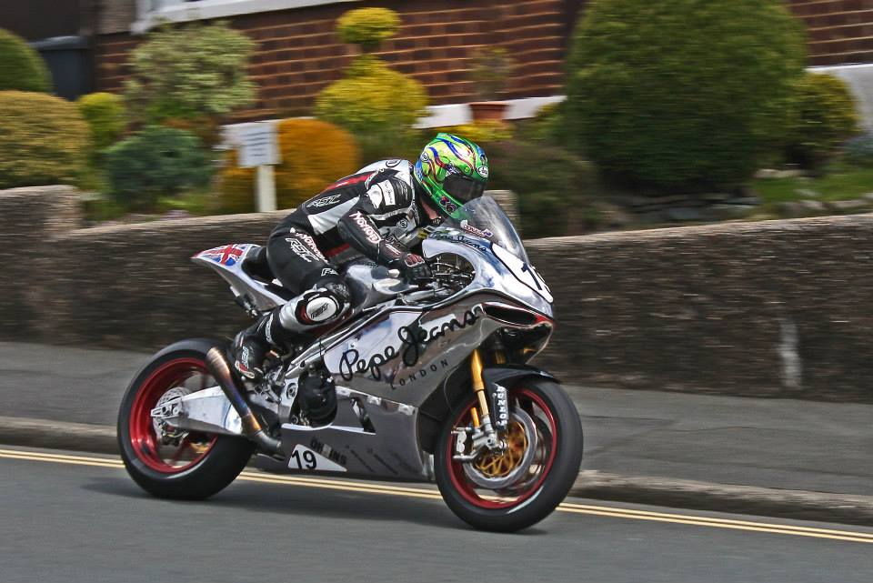 Cameron Donald descends Bray Hill on the factory Norton